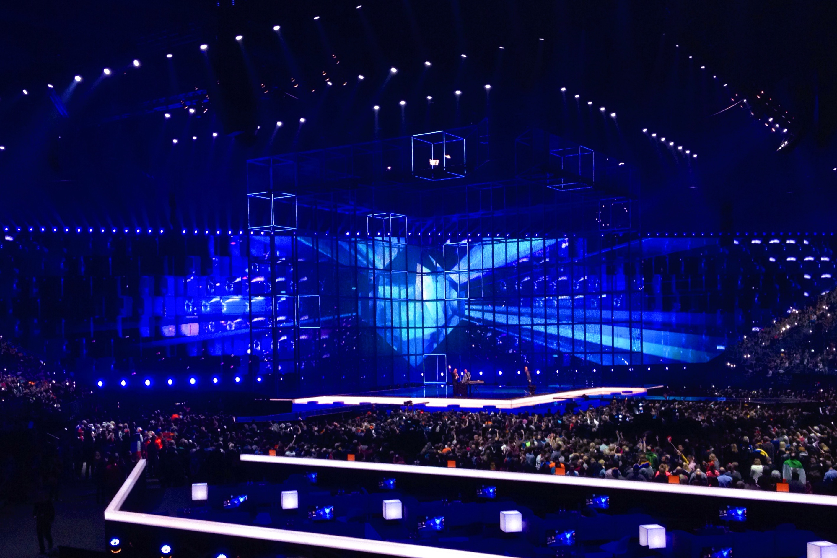 Eurovision 2014 stage.